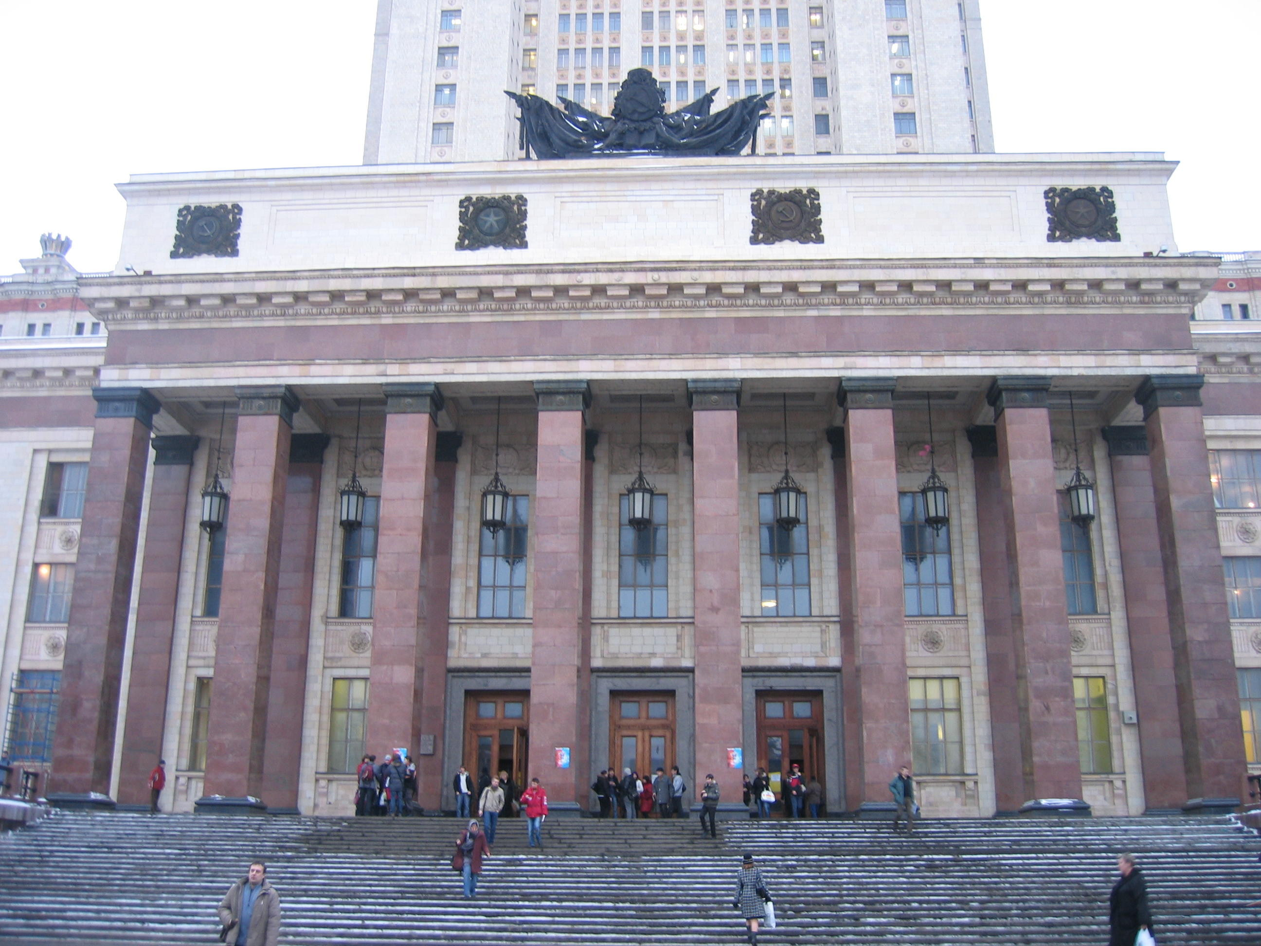 The main building of Moscow State University. Views from outside and from inside